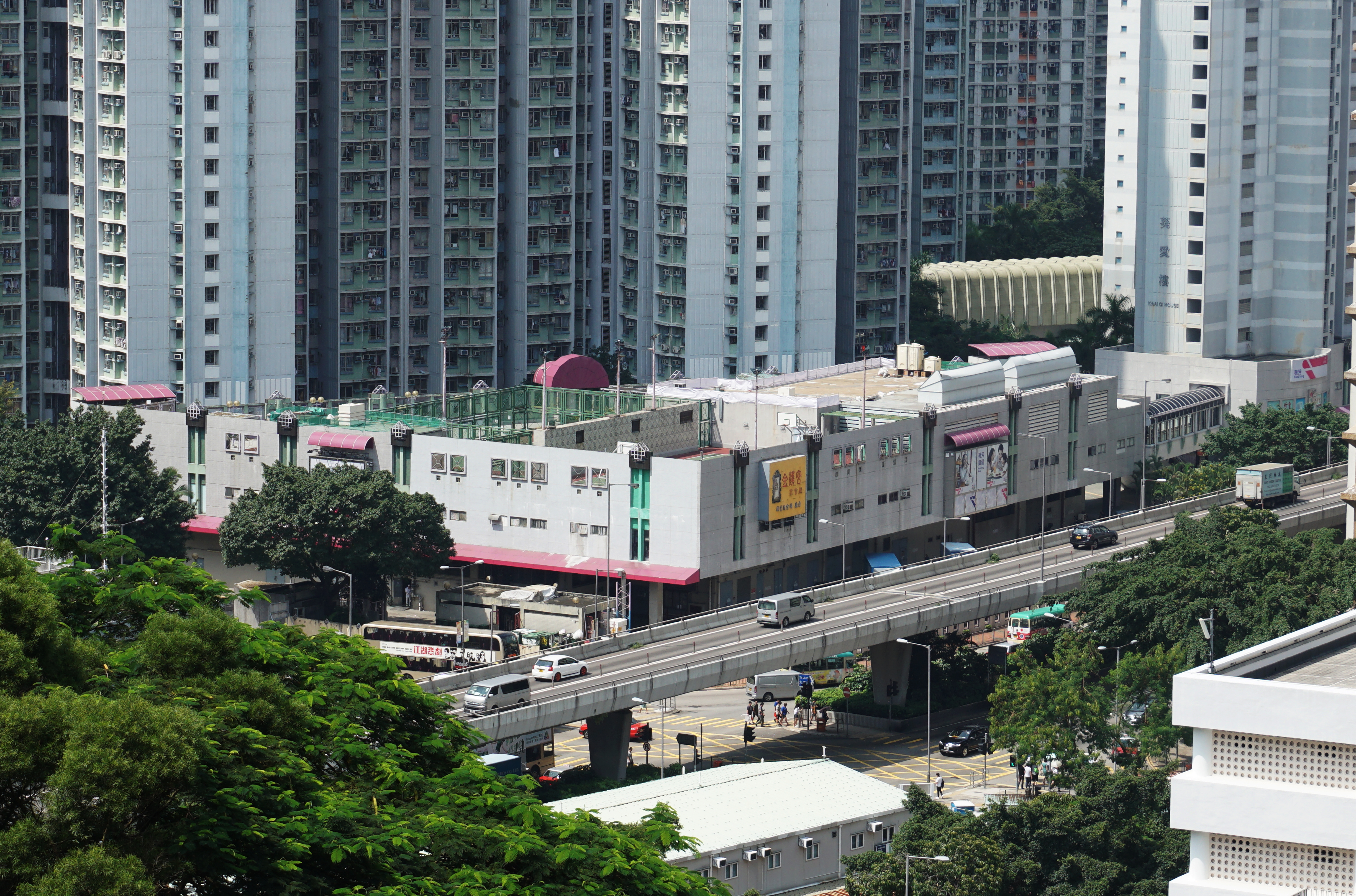 Kwai Fong Plaza in Kwai Tsing District, Hong Kong.